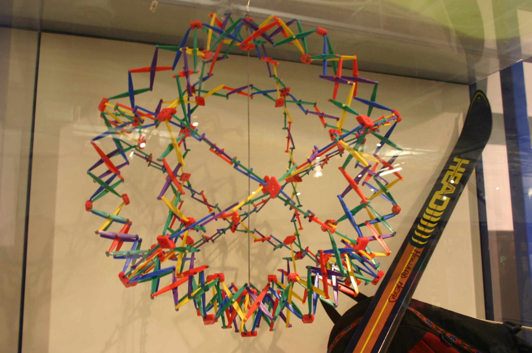 Taken at the Jerome and Dorothy Lemelson Hall of Invention at the National American History Museum. Visit for daily science links.